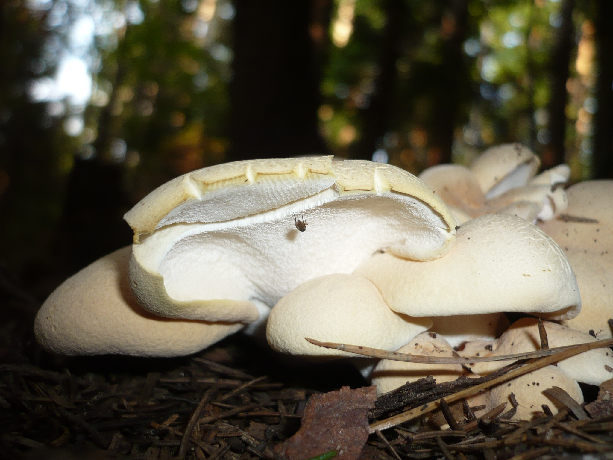 Albatrellus subrubescens (Murrill) Pouzar. Photographed in Marienquelle, Katzelsdorf, Bezirk Wiener Neustadt, Lower Austria, Austria.